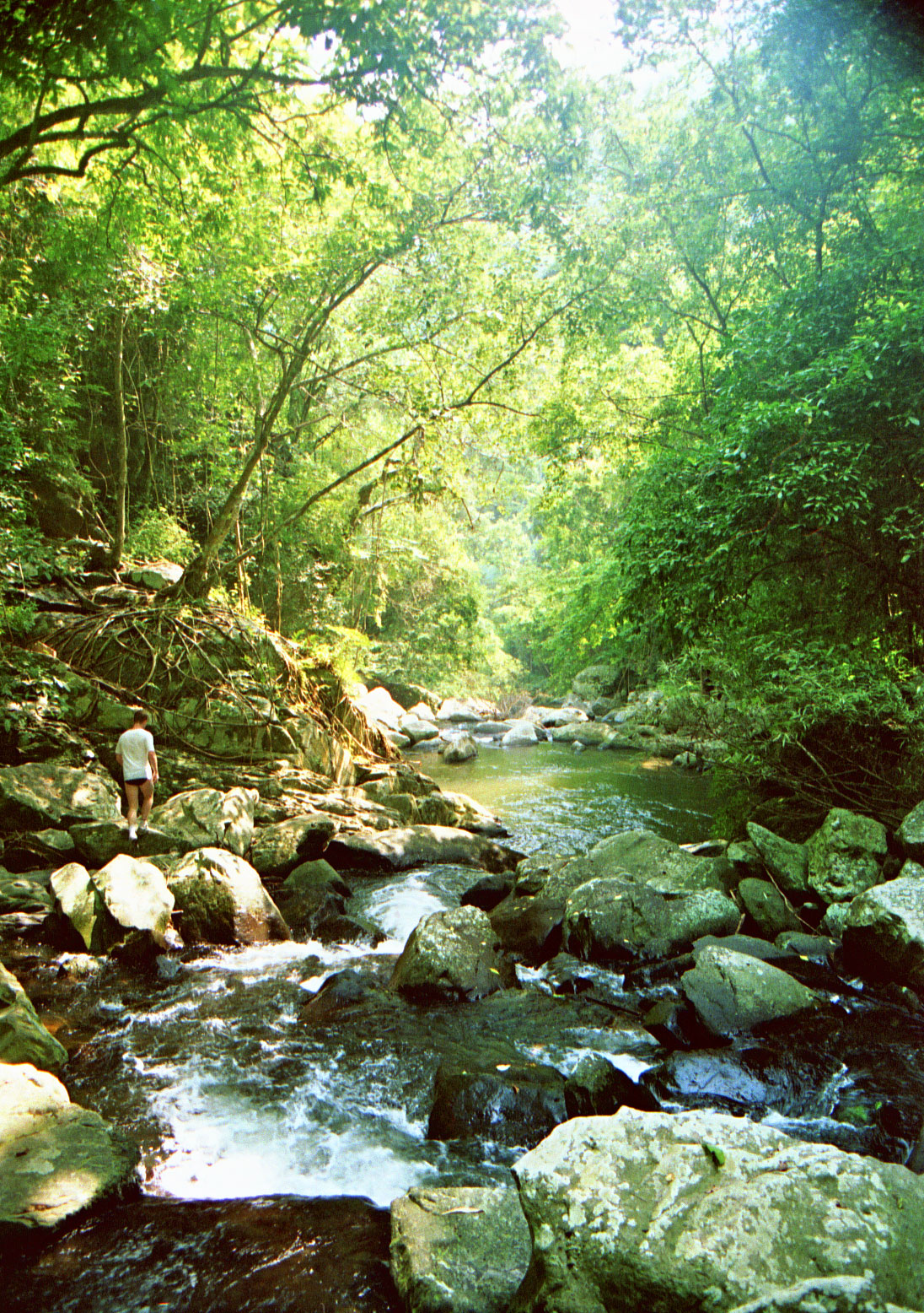 Kaeng Krachan National Park, Phetchaburi province, Thailand